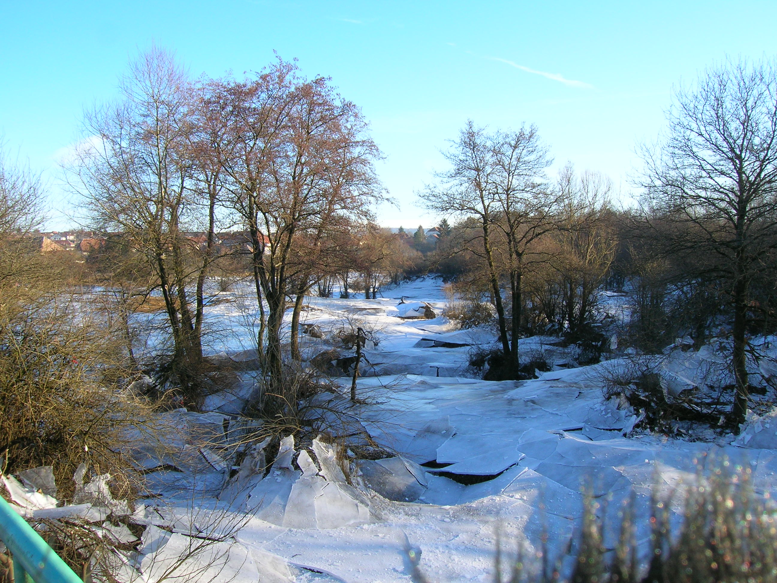 Marsh Creek Saone in the snow.